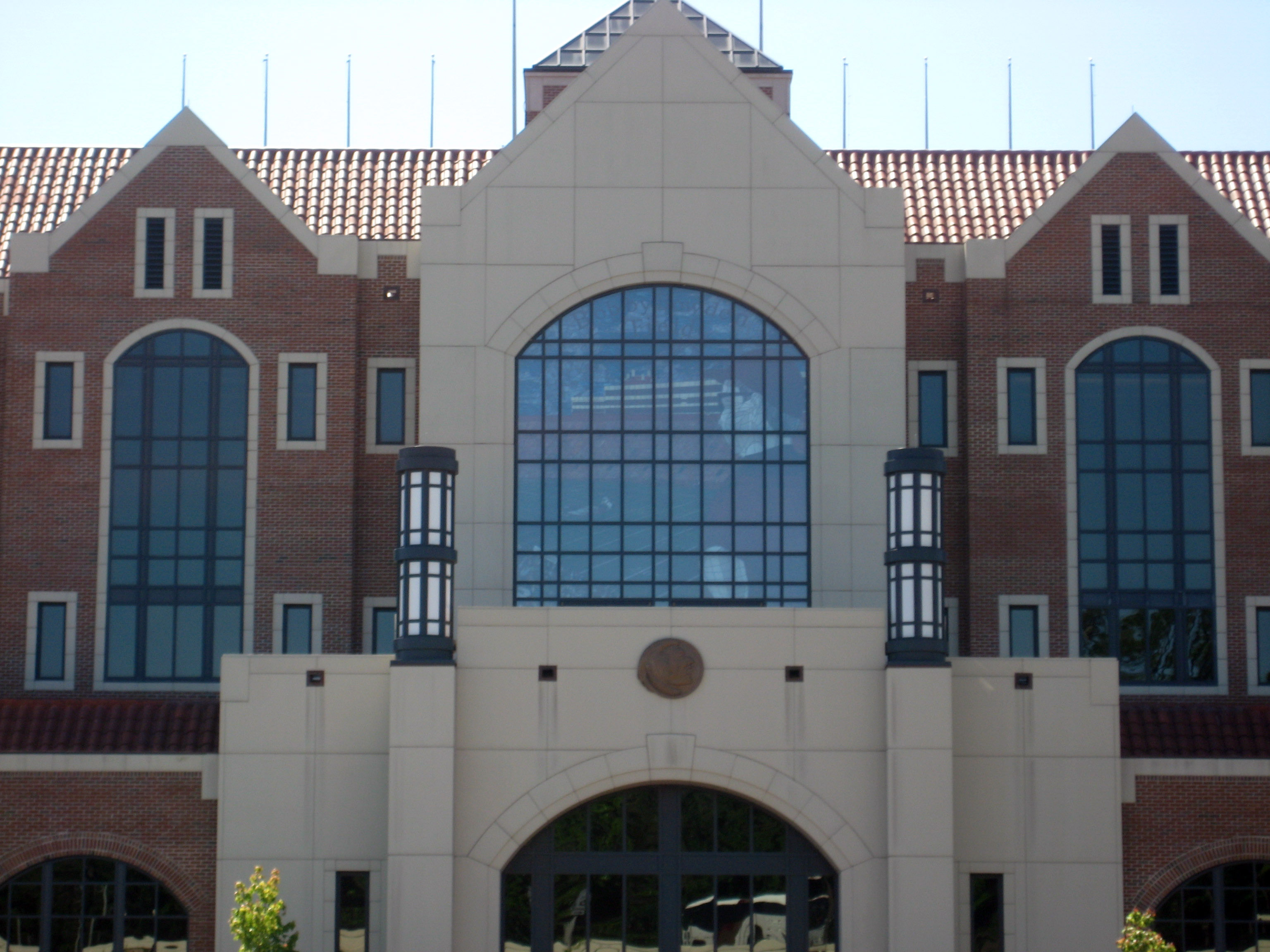 Stained glass at Bobby Bowden Field at Doak Campbell Stadium